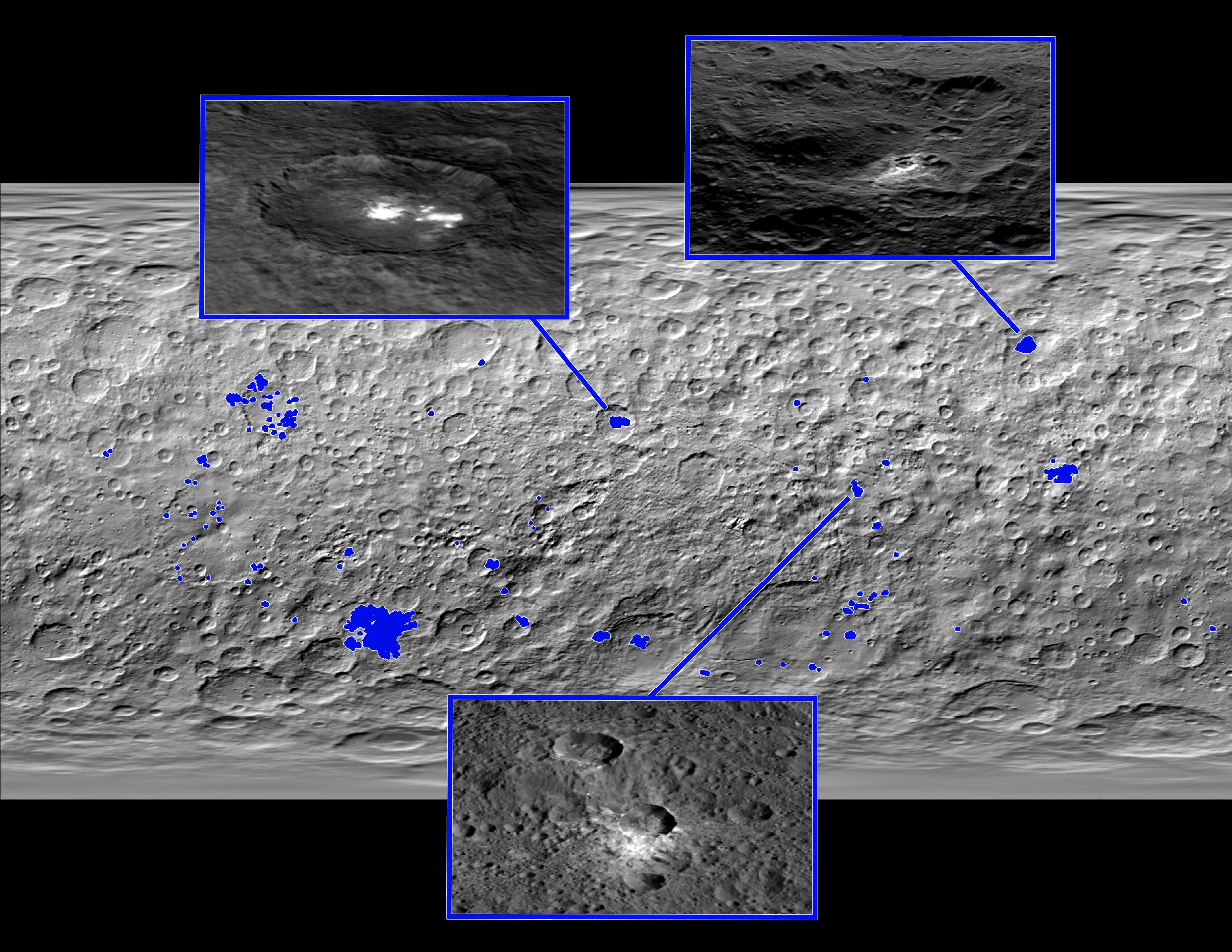 PIA20183: Bright Spot Locations on Ceres This map of Ceres, made from images taken by NASA's Dawn spacecraft, shows the locations of about 130 bright areas across the dwarf planet's surface, highlighted in blue. Most of these bright areas are associated with craters. Three insets zoom in on a few areas of interest. Occator Crater, containing the brightest area on Ceres, is shown at top left; Oxo Crater, the second-brightest feature on Ceres, is at top right. In a paper published in the Dec. 10, 2015, issue the journal Nature, Dawn mission scientists identify what they believe to be diffuse hazes at both Occator and Oxo. They believe the hazes appear when the sun shines on these craters, possibly from the sublimation of ice. A typical Ceres crater with bright material that does not appear to have remaining ice is shown at bottom. The bright material in this crater and others appears to originate from mineral salts that may have once been mixed with water ice, but dried up over time, scientists wrote in the same paper. Dawn's mission is managed by JPL for NASA's Science Mission Directorate in Washington. Dawn is a project of the directorate's Discovery Program, managed by NASA's Marshall Space Flight Center in Huntsville, Alabama. UCLA is responsible for overall Dawn mission science. Orbital ATK, Inc., in Dulles, Virginia, designed and built the spacecraft. The German Aerospace Center, the Max Planck Institute for Solar System Research, the Italian Space Agency and the Italian National Astrophysical Institute are international partners on the mission team. For a complete list of acknowledgments, For more information about the Dawn mission, visit